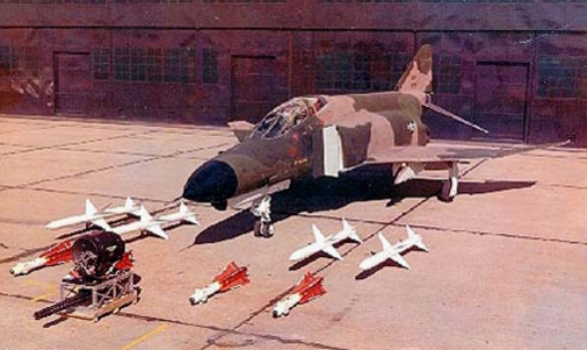 A U.S. Air Force McDonnell Douglas F-4E-32-MC Phantom II (s/n 66-0323) with four AIM-7 Sparrow and four AIM-4D Falcon missiles and an M61A1 Vulcan 20mm cannon.